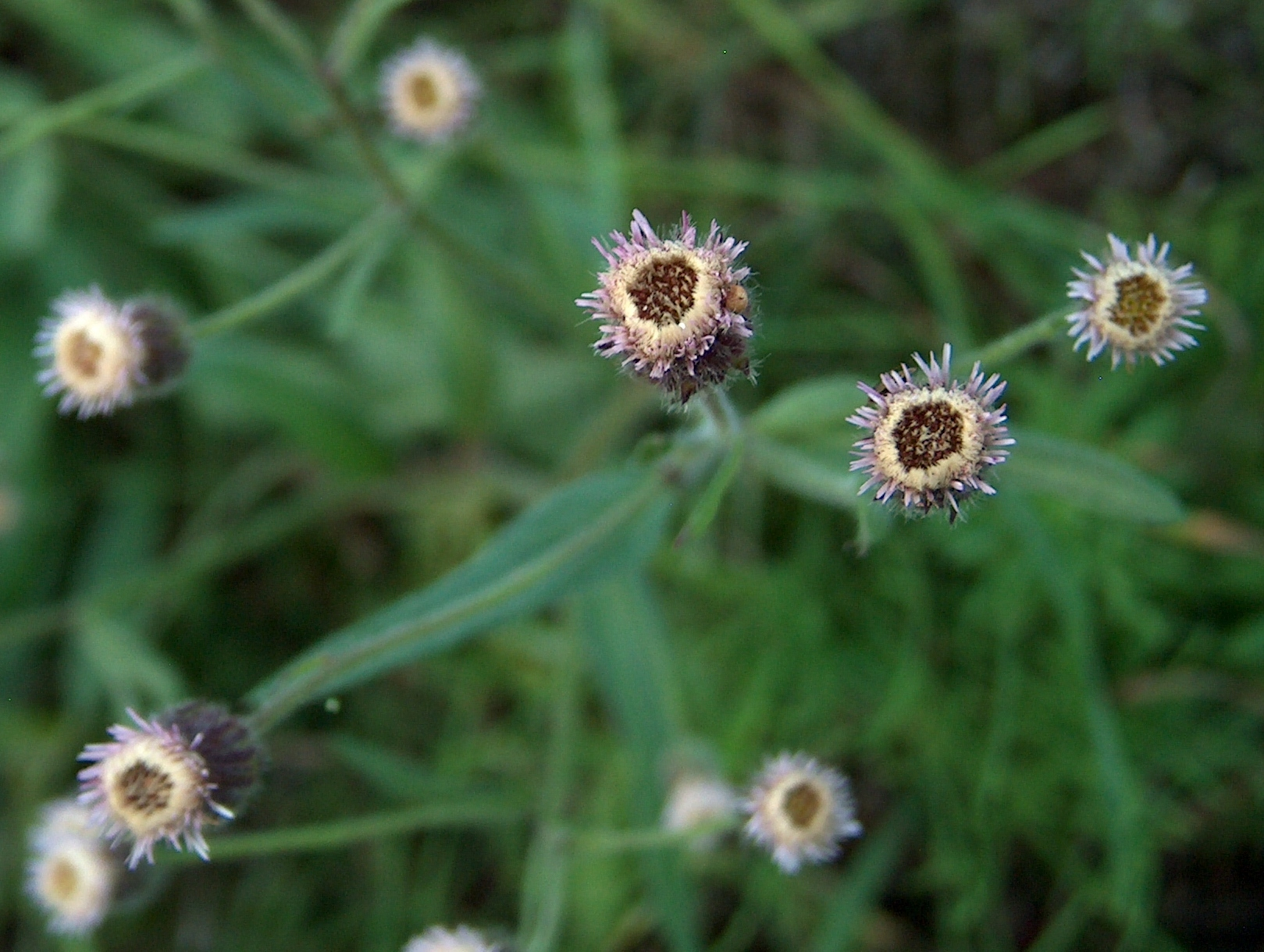 Blue Fleabane (Erigeron acer) in Kerava, Finland